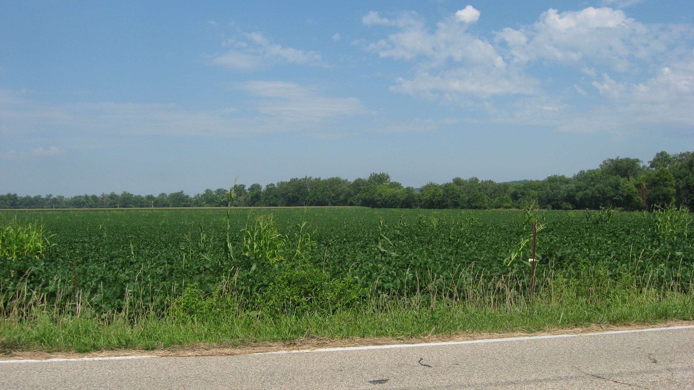 Looking westward over the Colerain Works from Miami River Road in Colerain Township, Hamilton County, Ohio, United States. The works — not easily visible under the crops at the far edge of the field — are an archaeological site and have been listed on the National Register of Historic Places.